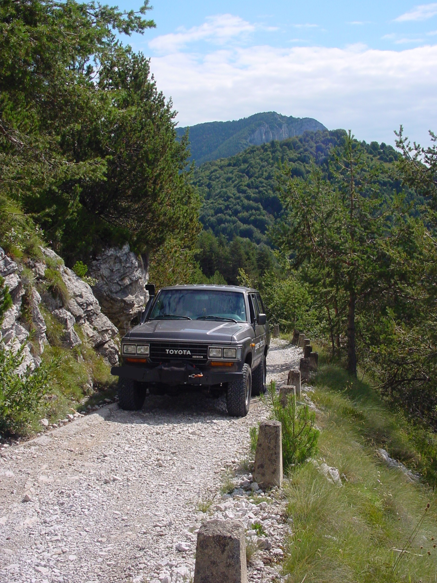 Passo di Tremalzo. Road condition and size of south ascend compared with 4x4 vehicle. No turns possible! Vehicle is a Toyota LandCruiser HJ60 automatic transfer, tires are BFG AT, LockRight lockers front and rear, WARN M10000 winch - equipped by power-trax.de